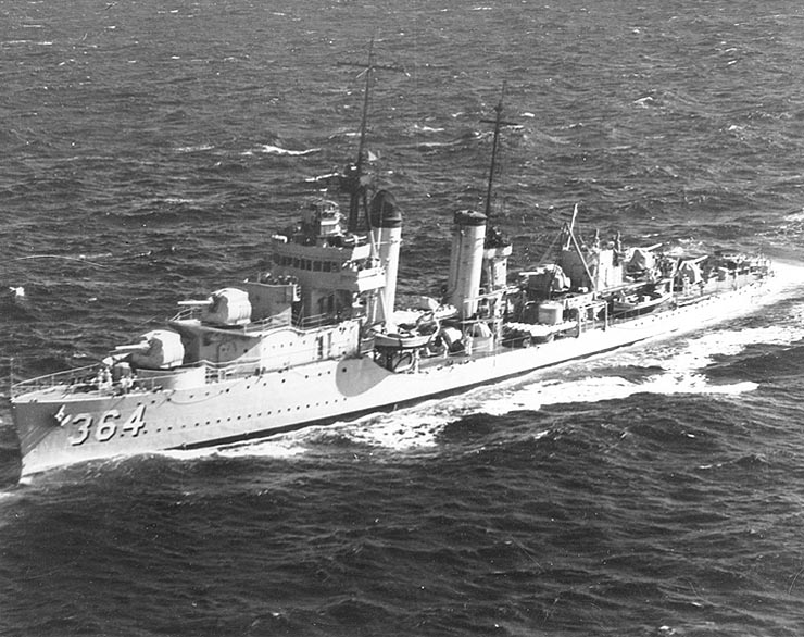 Underway at sea, circa 1938. Official U.S. Navy Photograph, now in the collections of the National Archives. Removed caption read: Photo # 80-G-466572 USS Mahan at sea, circa 1938